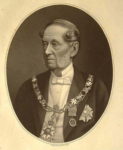 The Honorable Sir Alfred Stephen, C.B., G.C.M.G., Lieutenant-Governor, third Chief Justice of New South Wales